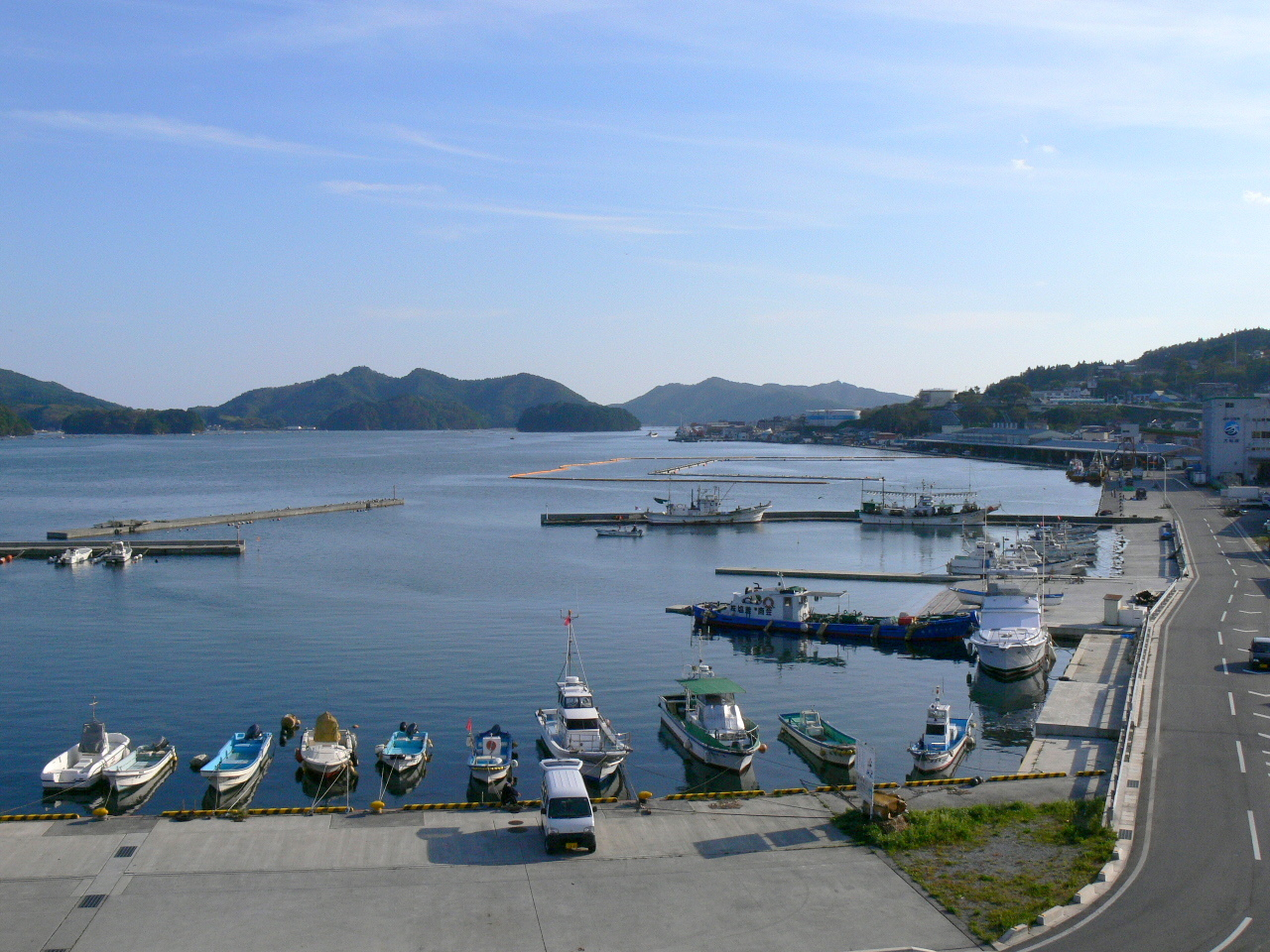 Ofunato Port South（Iwate prefecture , Japan）.